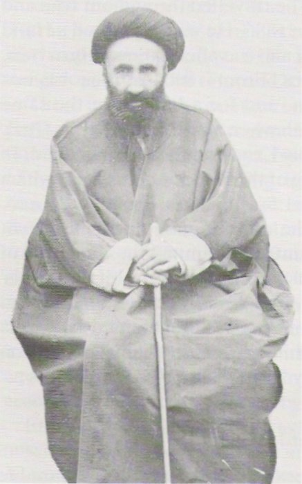 Picture is of a historical figure in the Baha'i Faith: Haji Mirza Muhammad-Taqi, known as Vakílu'd-Dawlih. Scanned in from pg. 267 of: Balyuzi, H.M. (1985) Eminent Bahá'ís in the time of Bahá'u'lláh, The Camelot Press Ltd, Southampton ISBN 0853981523